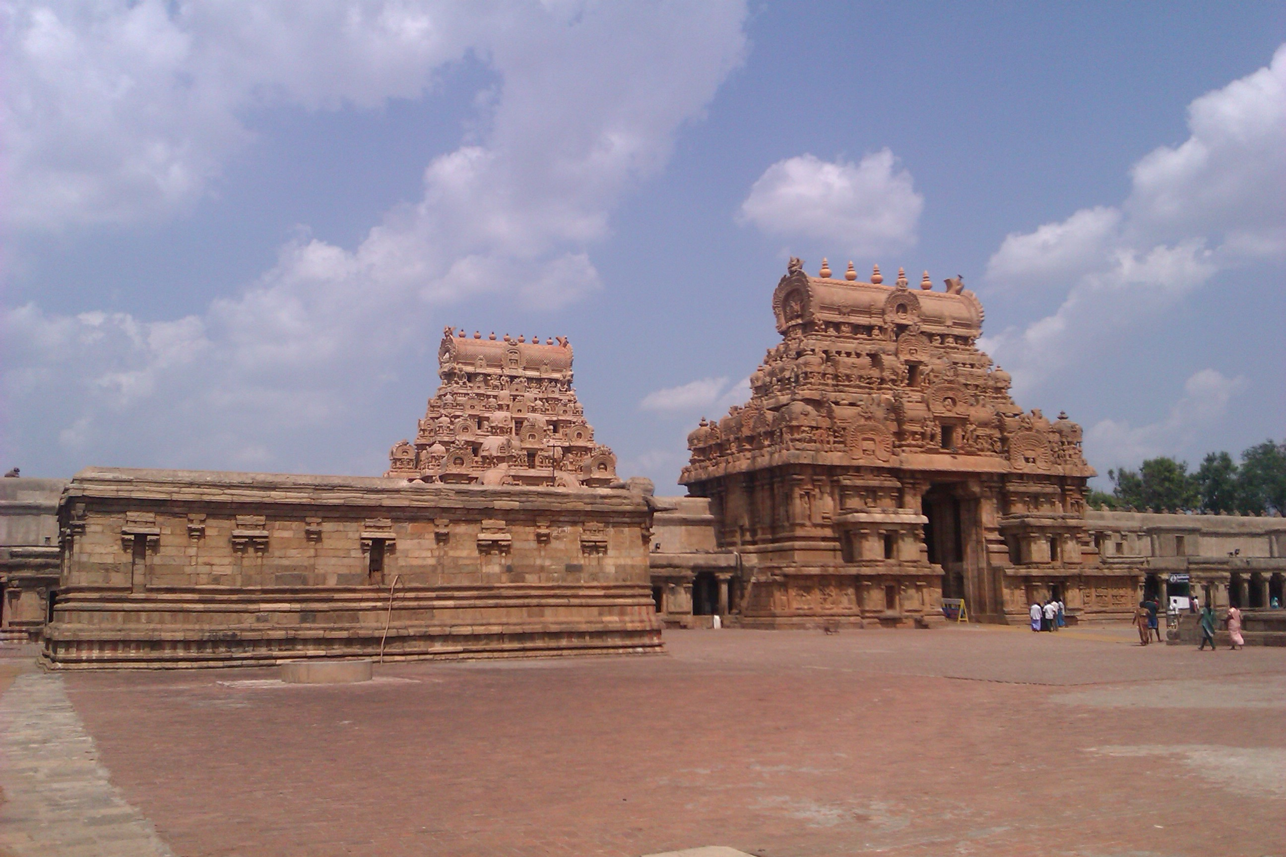 Left side view of Brihadeeswarar Temple ,The Peruvudaiyar Koyil (Tamil: பெருவுடையார் கோயில், peruvuḍaiyār kōyil , also known as Brihadeeswarar Temple and Rajarajeswaram at Thanjavur in the Indian state of Tamil Nadu, is a Hindu temple dedicated to Shiva and a brilliant example of the major heights achieved by Cholas in Tamil architecture.